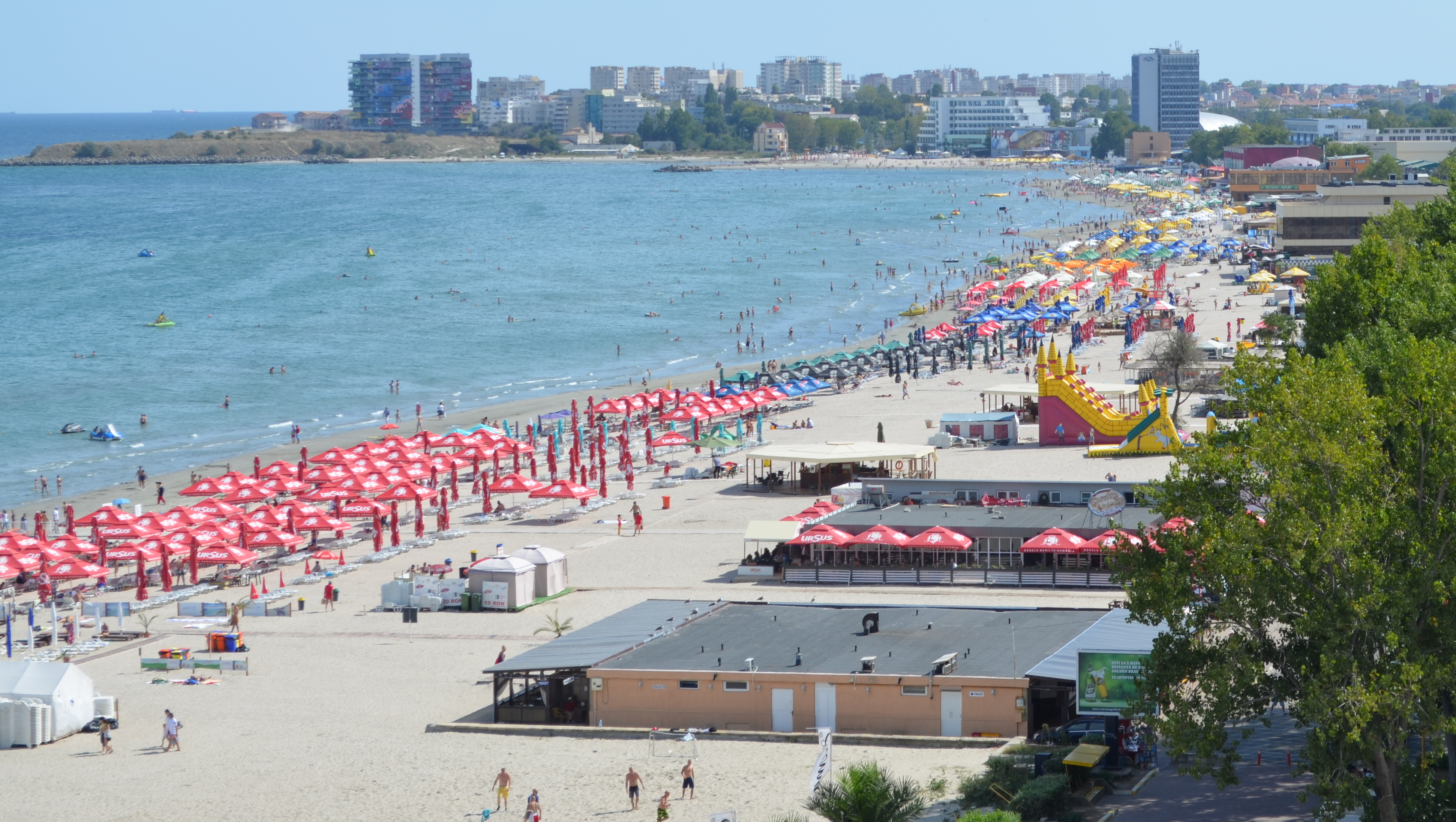 Mamaia Beach in September 2013 (seen from the cable car)